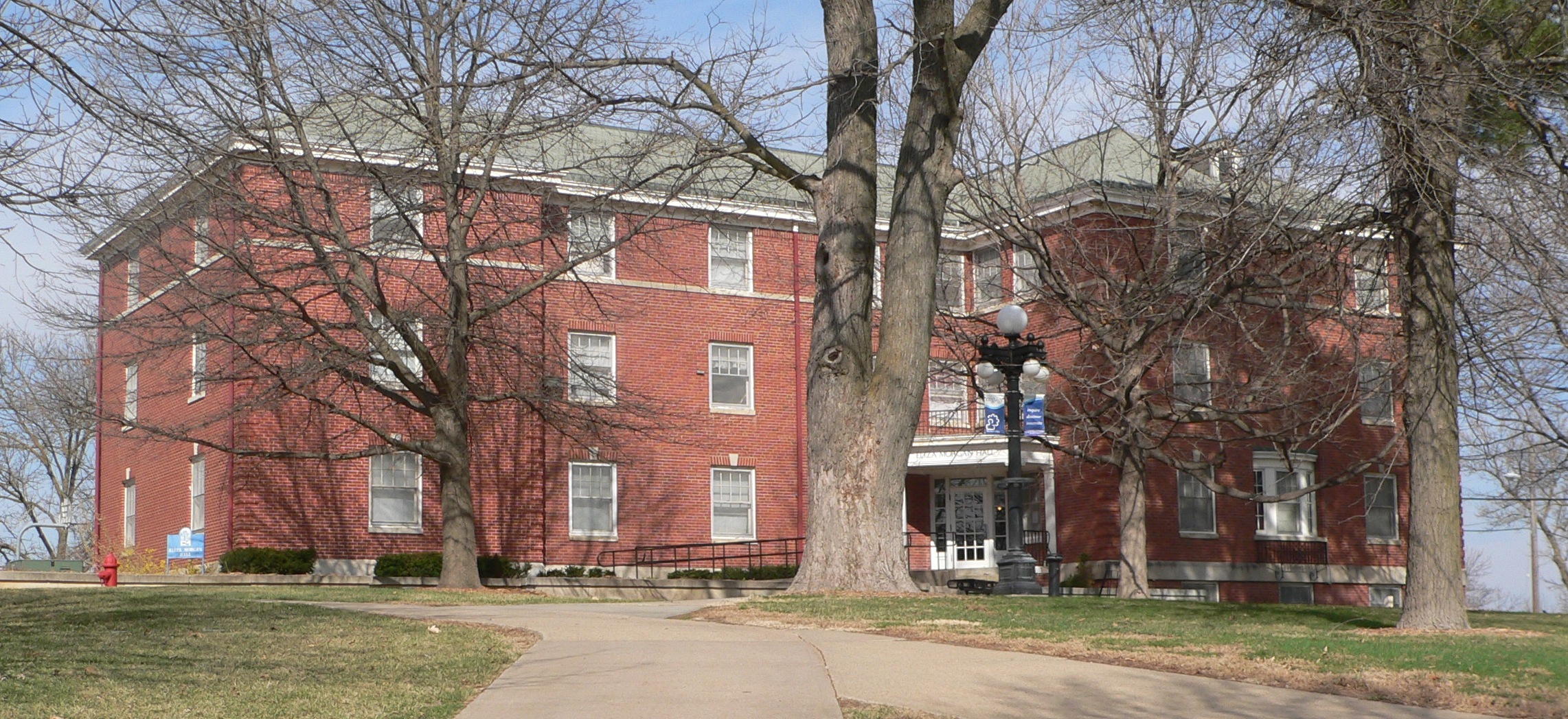 Eliza Morgan Residence Hall at Peru State College in Peru, Nebraska; seen from the southeast.